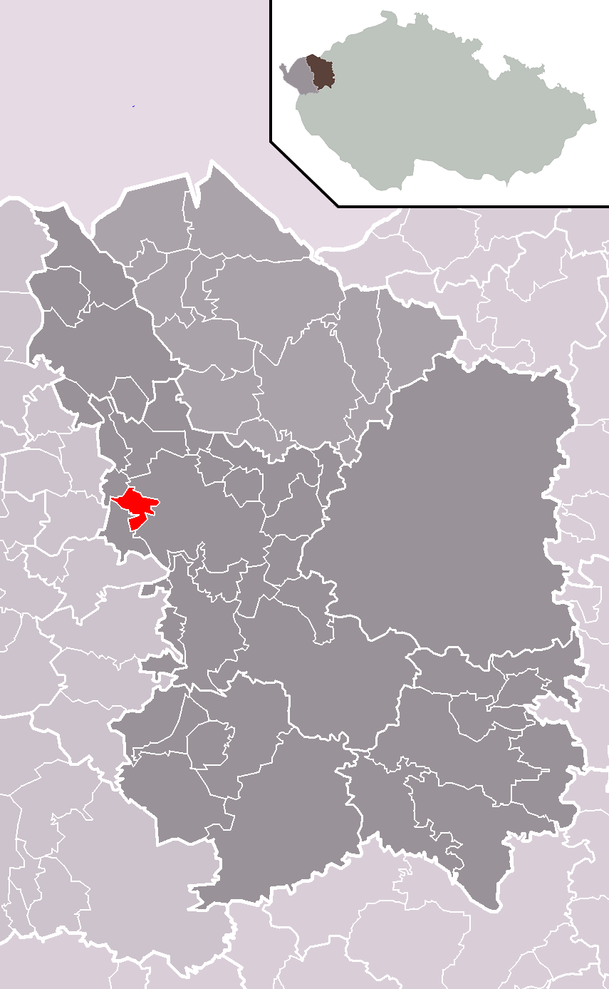 Location of Jenišov municipality within Karlovy Vary District and administrative area of Karlovy Vary as a Municipality with Extended Competence.